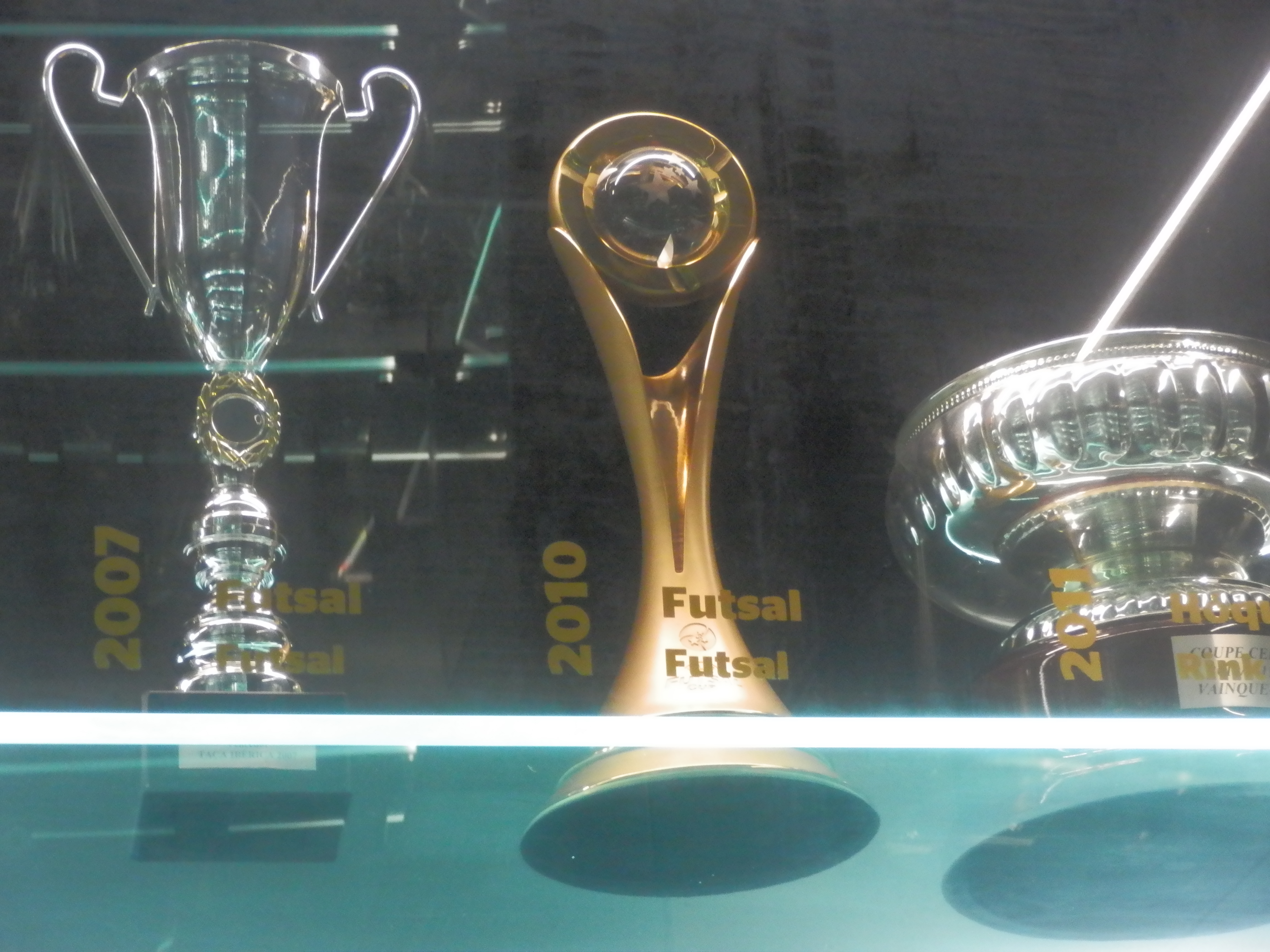 The 2009-10 UEFA Futsal Cup trophy. Note that recent trophies are same shape but larger